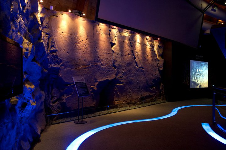 replica in Ulsan Petroglyph Museum